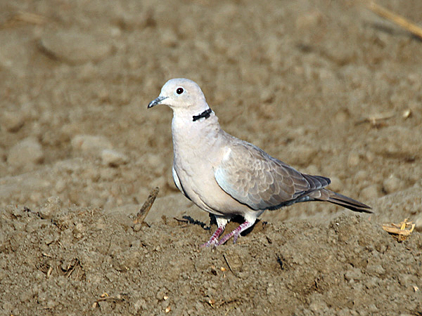 Eurasian Collared Dove Streptopelia decaocto at Hodal in Faridabad District of Haryana, India.